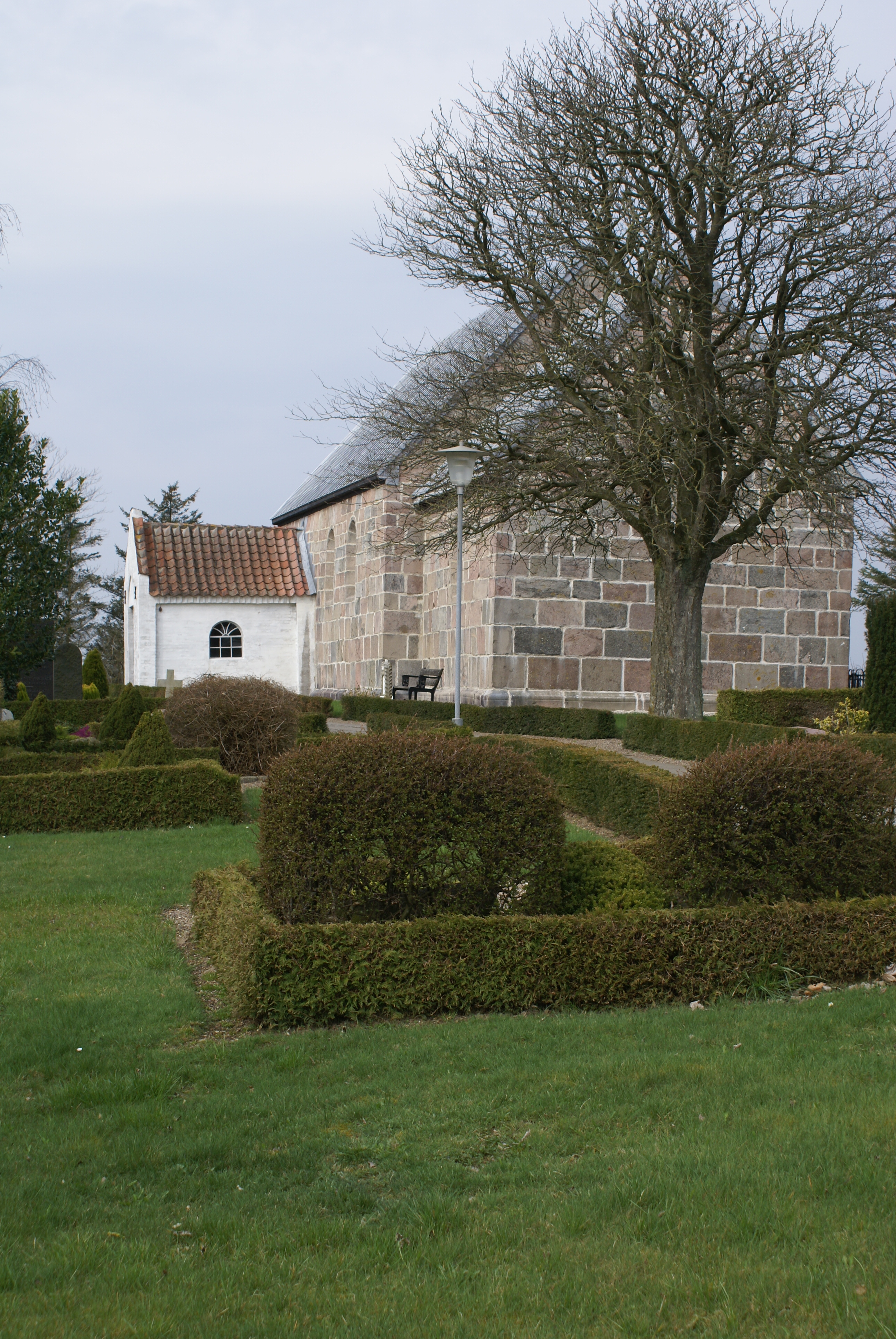 Sejlstrup Church, Denmark